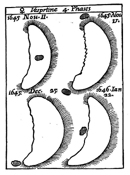 Redrawing of Francesco Fontana’s drawing of the supposed satellite(s) of Venus.